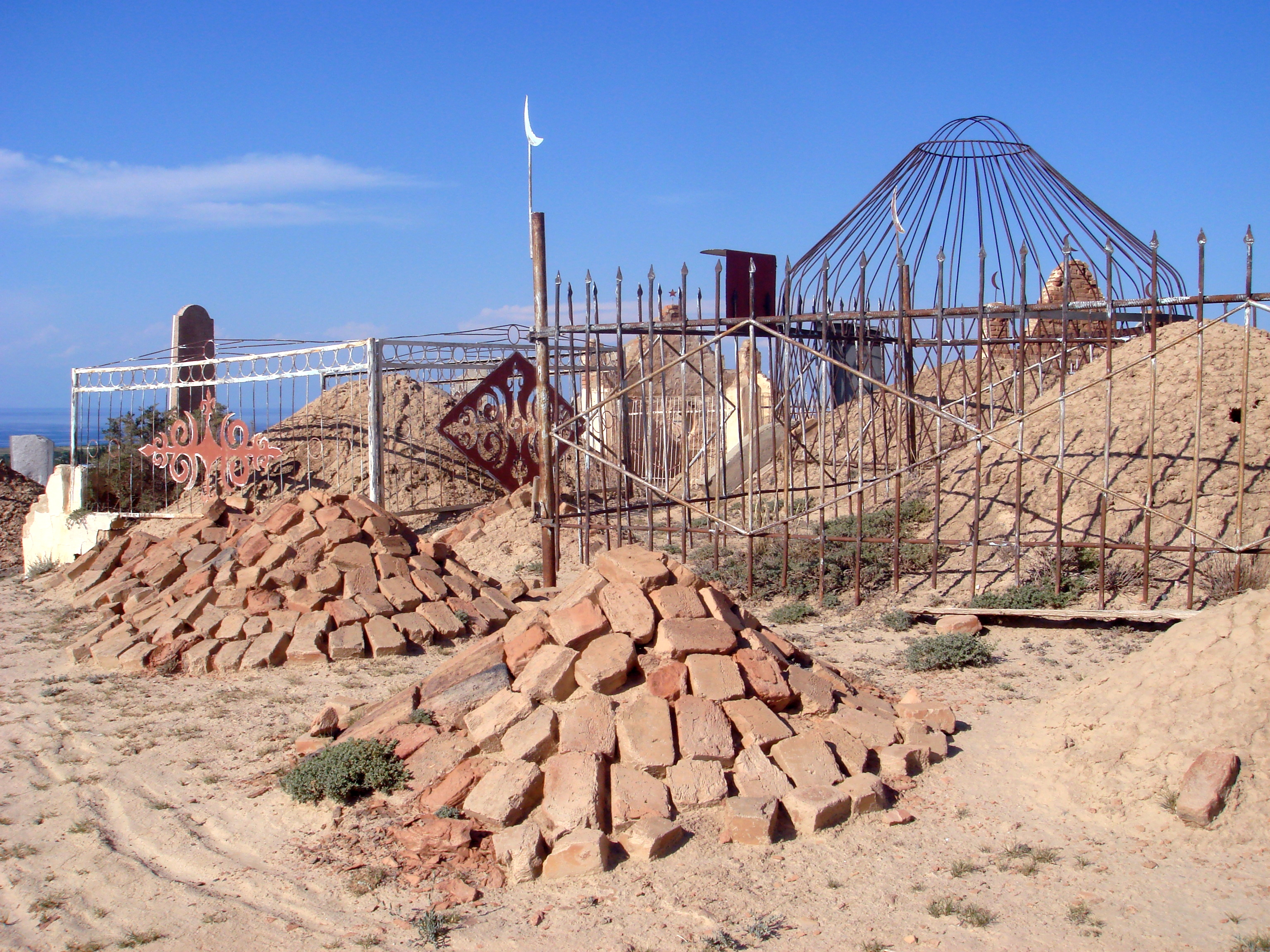 Muslim cemetery near Tamga (Issyk Kul Province, Kyrgyzstan).